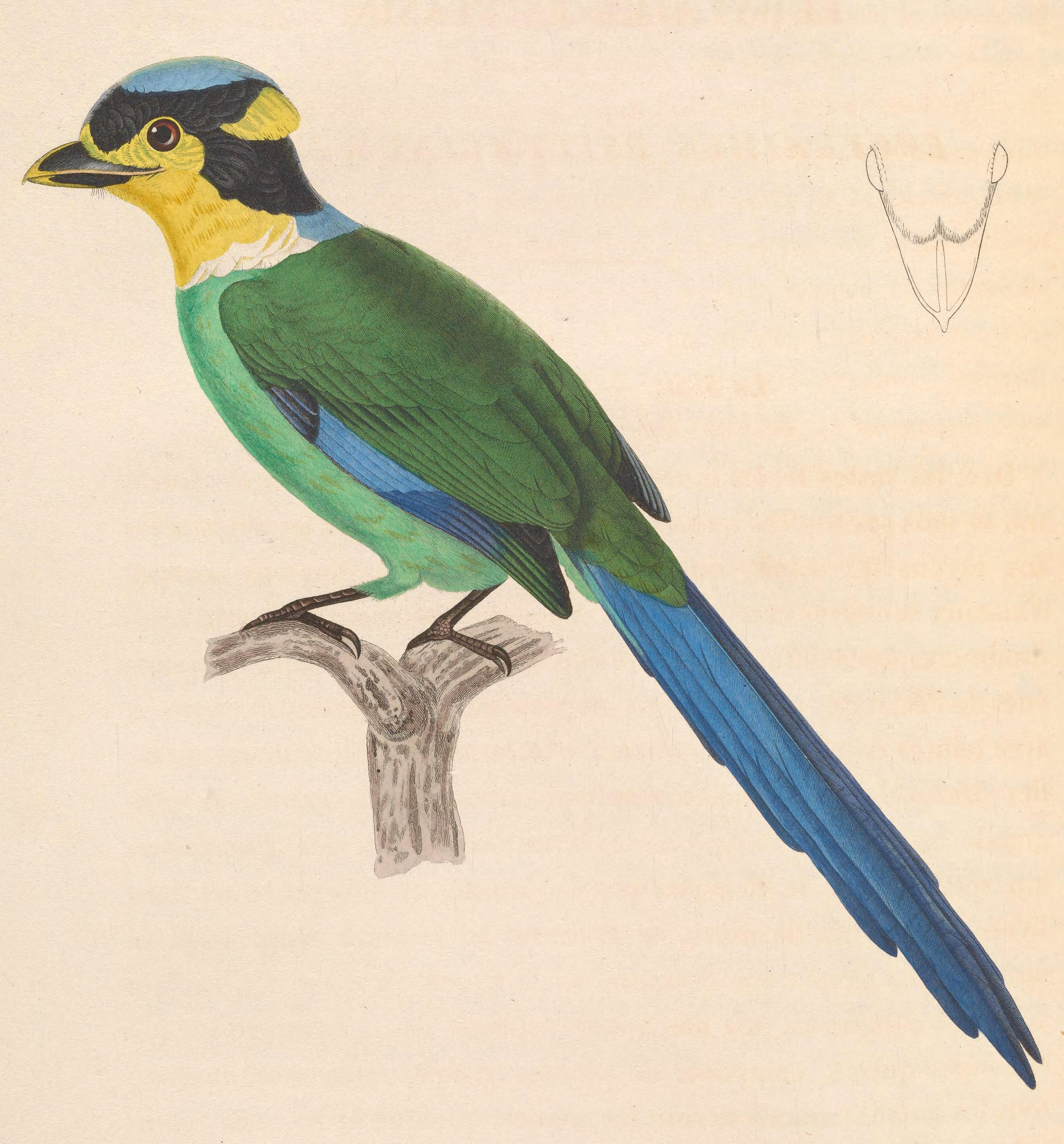 « Eurylaimus psittacinus » = Psarisomus dalhousiae psittacinus (Subspecies of Long-tailed Broadbill) - male